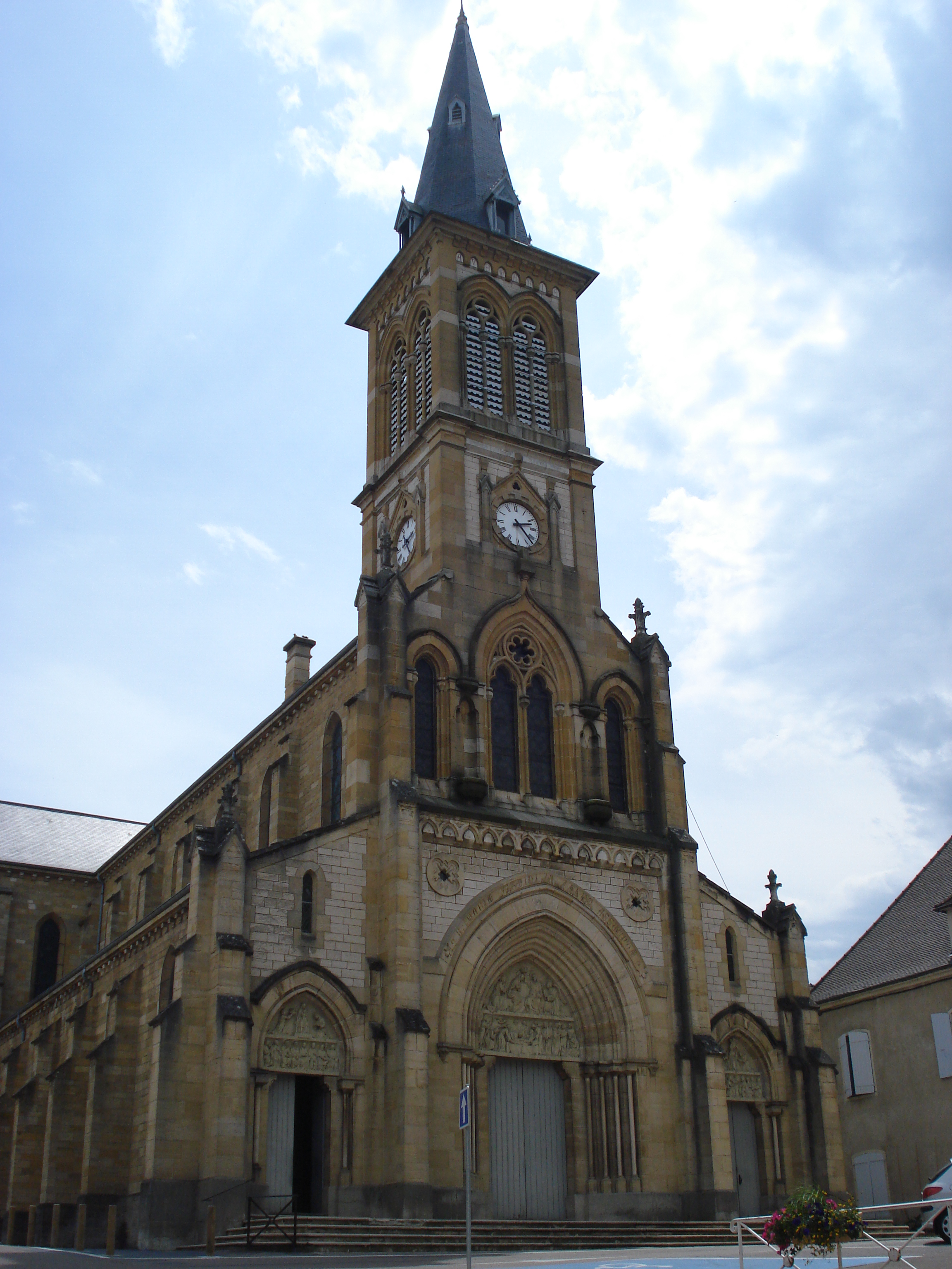 La Clayette (Saône-et-Loire, Fr) church facade (no fountains, mistake)